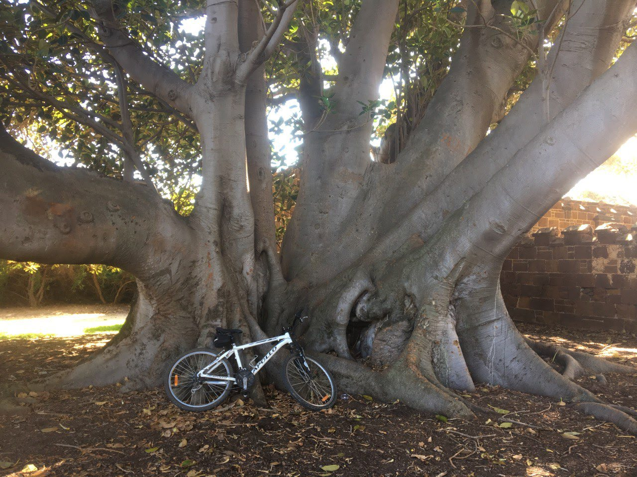 The large trunk and roots of the Ficus macrophylla next to a bike for scale. The tree was one of two planted in the gardens of Black Rock House (built in 1856 and likely planted around that time), in the Melbourne suburb of Black Rock.